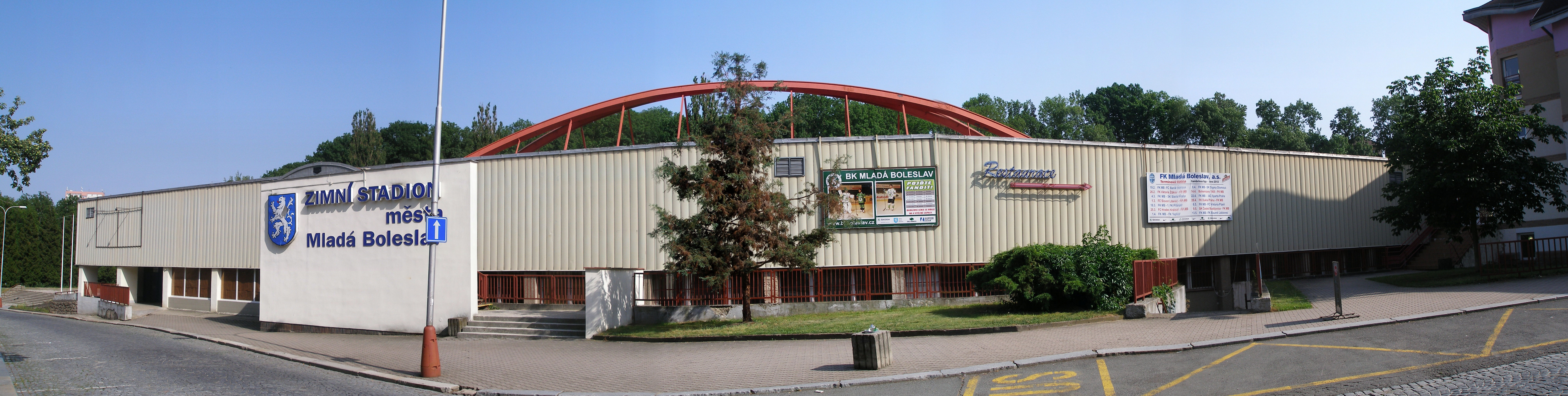 Ice hockey venues in Mladá Boleslav (Czech Republic).